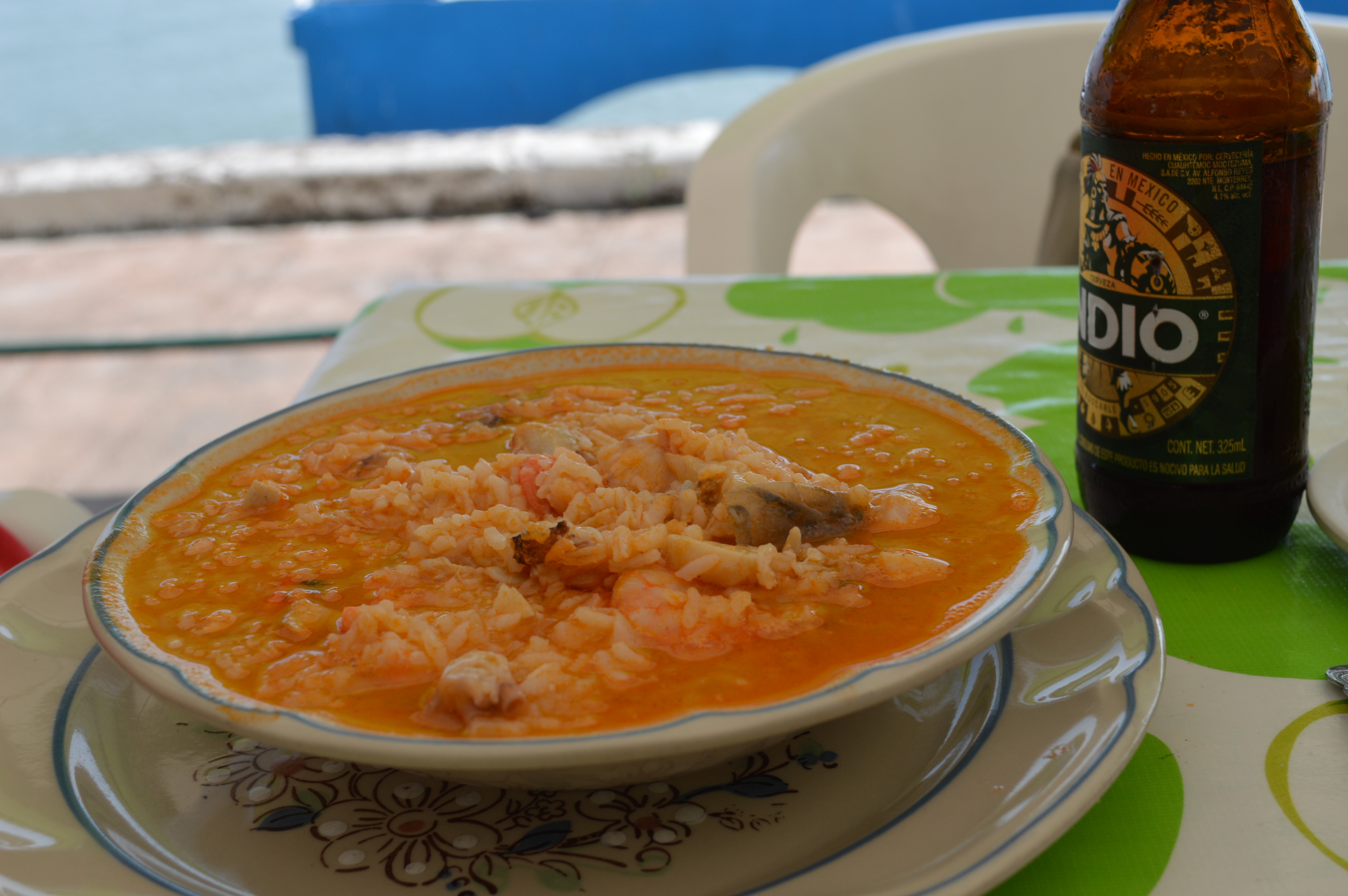 Arroz a la tumbada at a restaurant on the boardwalk in Tlacotalpan, Veracruz, Mexico